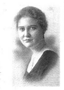 Zona Maie Griswold, from a 1917 publication. A young white woman wearing a dark bodice, with her hair dressed back and low on her neck.